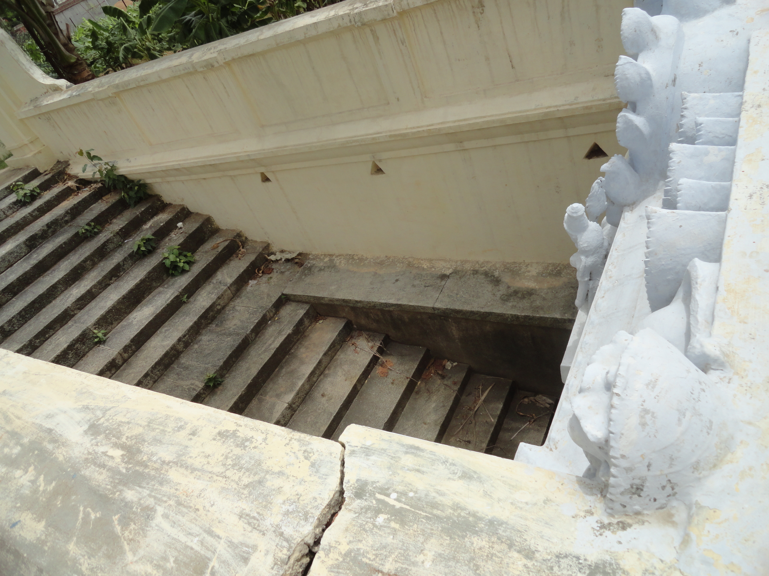 పద్మావతి అమ్మవారి ఉద్యానవనంలో దిగుడు బావి లోనికి మెట్ల వరుస